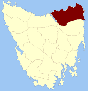 Location of the land district (formerly county) within Tasmania.